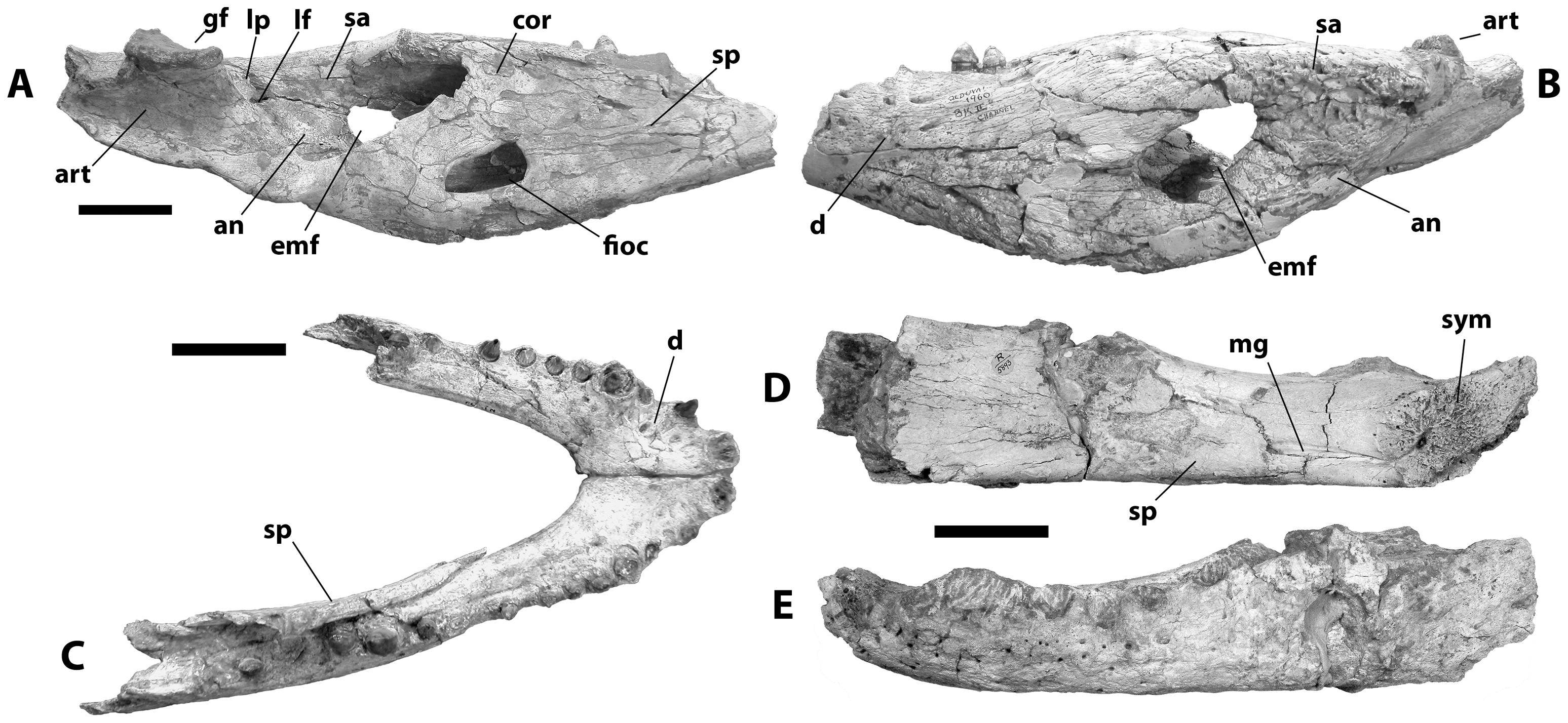 Mandibular remains referred to Crocodylus anthropophagus. KNM BKII OLD 1960: left postdentary bones and posterior end of dentary, medial (A) and lateral (B) view; KNM FLKNI, dentaries and portion of right splenial, dorsal view (C); NHM R.5893, left dentary and splenial, medial (D) and lateral (E) view. Scale = 5 cm.